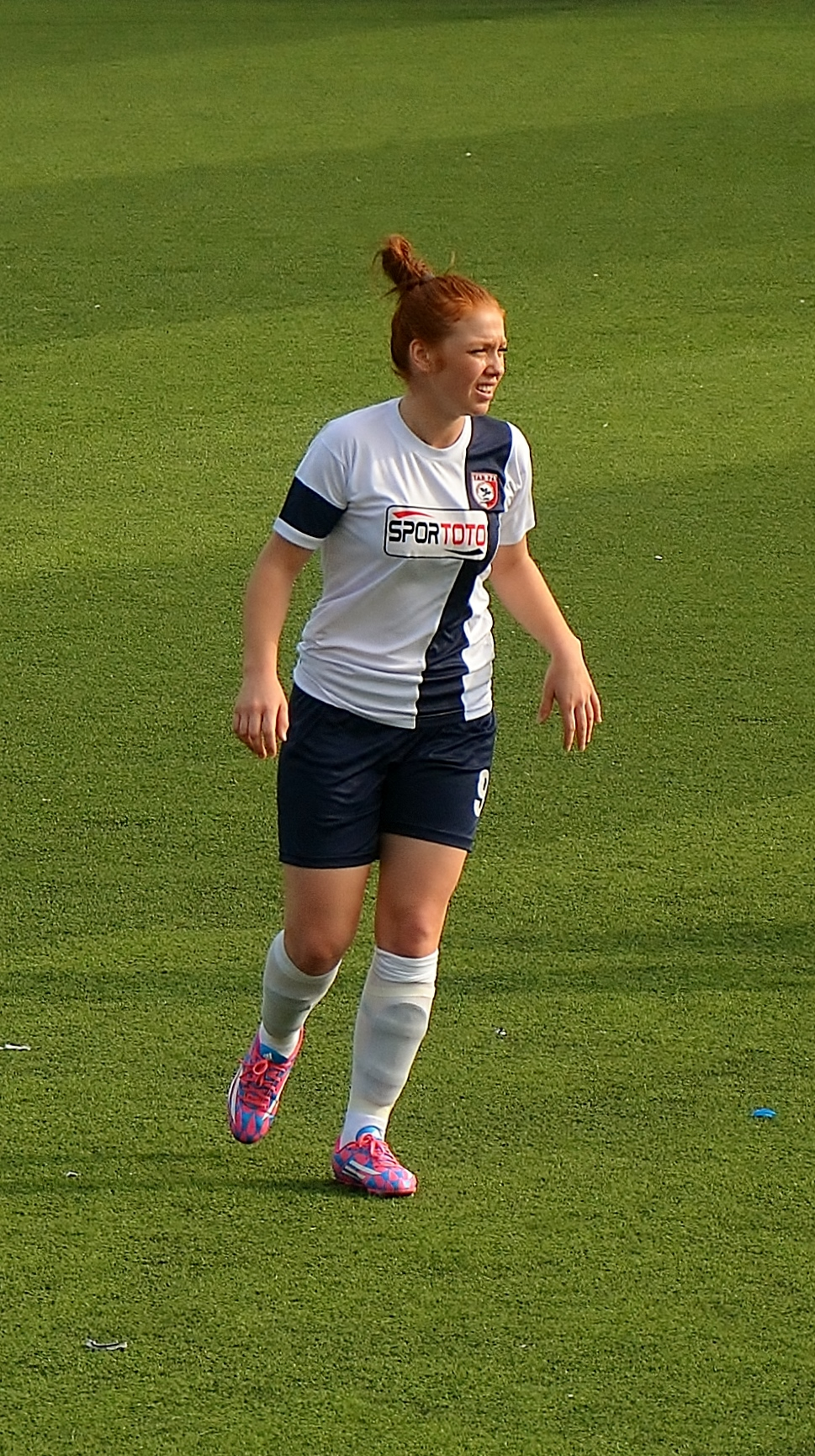 Gül Kaplan playing for İlkadım Belediyesi Yabancılar Pazarı Spor in the 2014-15 season away match against Ataşehir Belediyespor